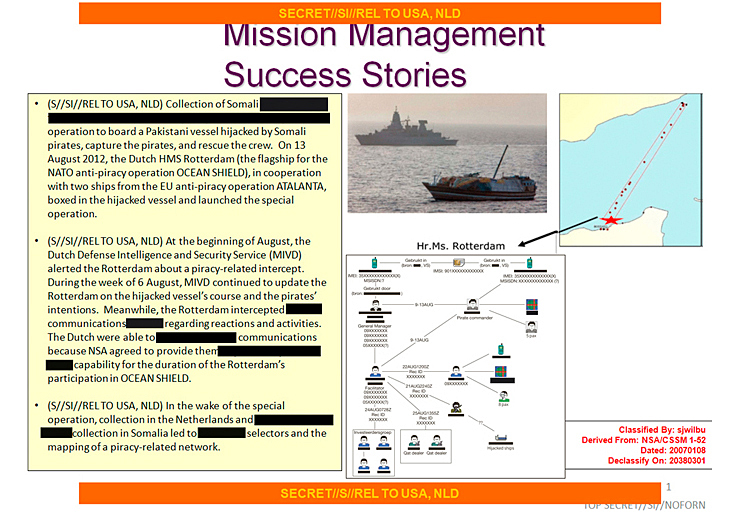 Slide from an NSA presentation about the cooperation with the Dutch military intelligence service MIVD regarding Somali pirates. Published on March 8, 2014 by the Dutch paper NRC Handelsblad.